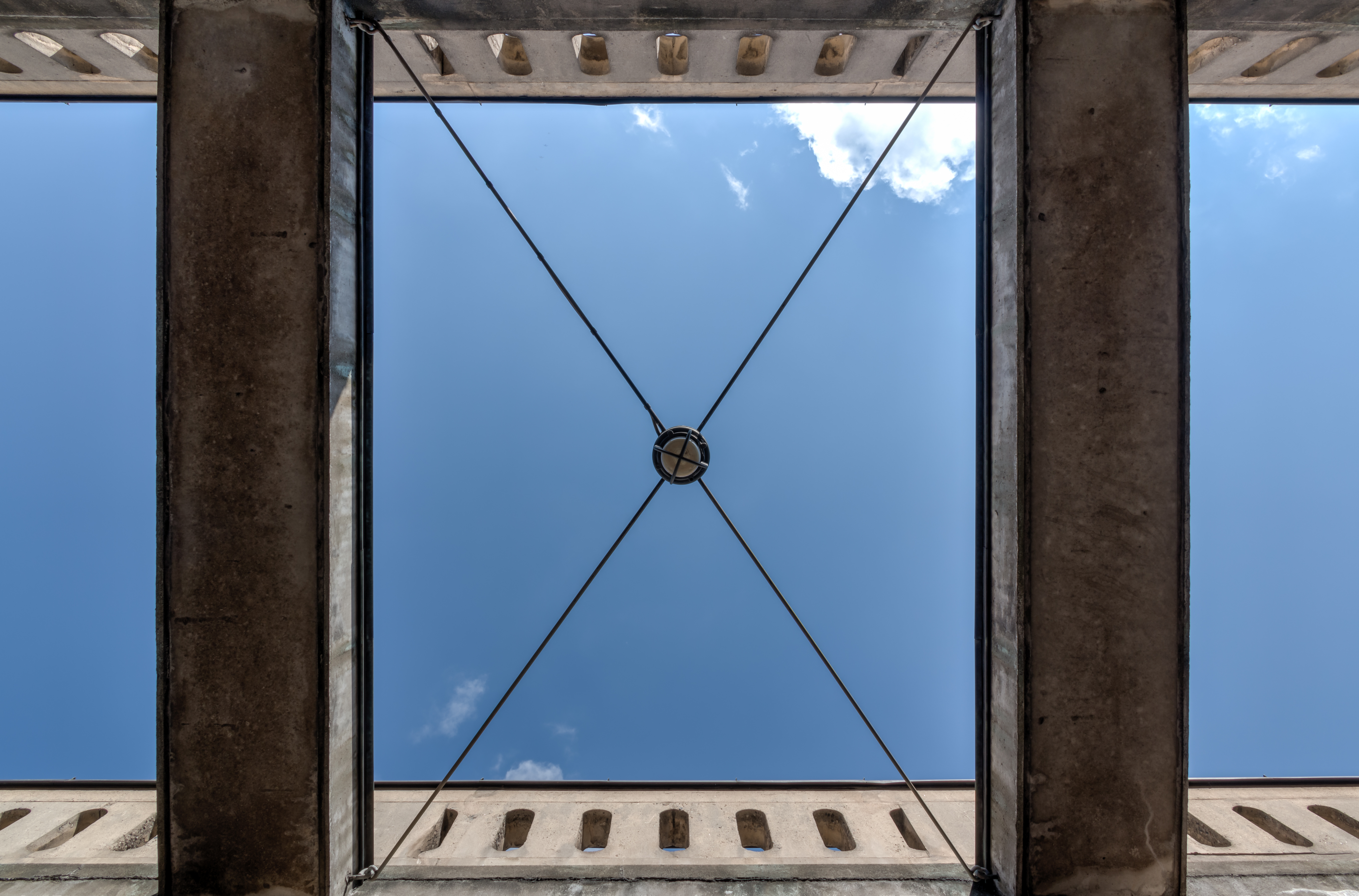 Arcades at Nationalmuseet, Copenhagen, Denmark